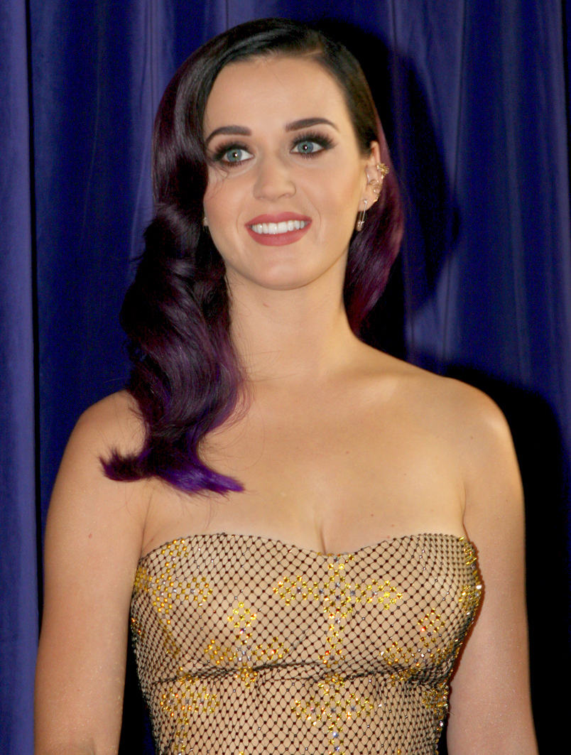 Katy Perry: Part Of Me Australian Premiere in June 2012.